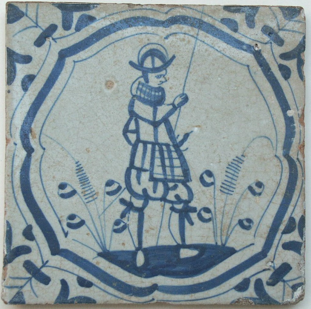 Decorated tile showing a spiesman(?)